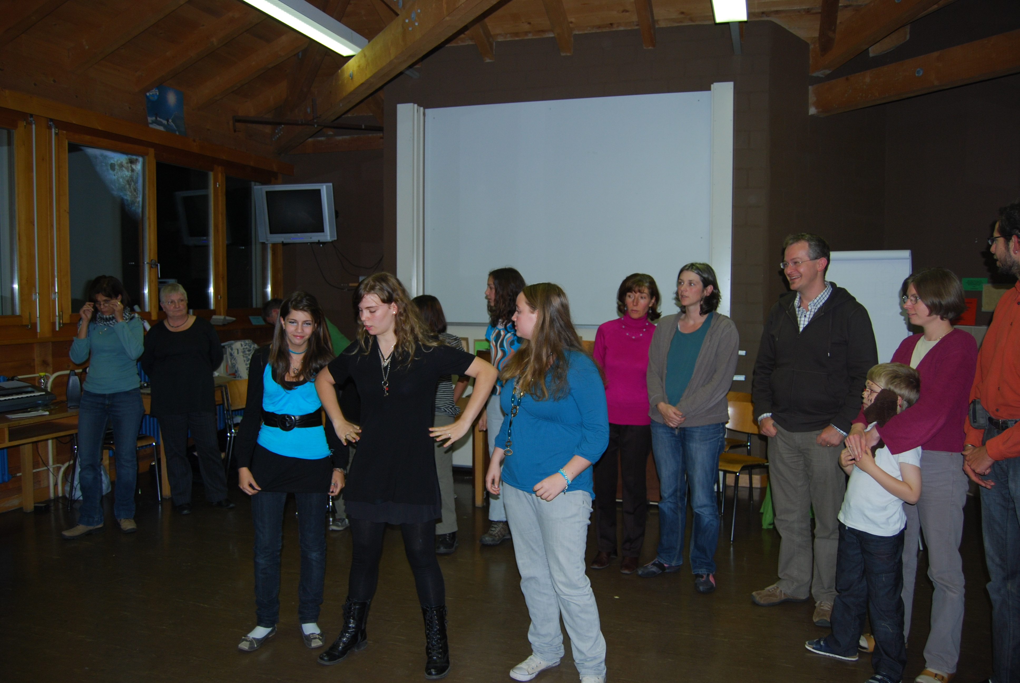 Presentation of esperantist children during 2nd SFERO at Lenk, canton of Bern, SwitzerlandEsperanto: Prezentaĵo de esperantistaj infanoj dum 2-a SFERO en Lenk, Kantono Berno, Svislando